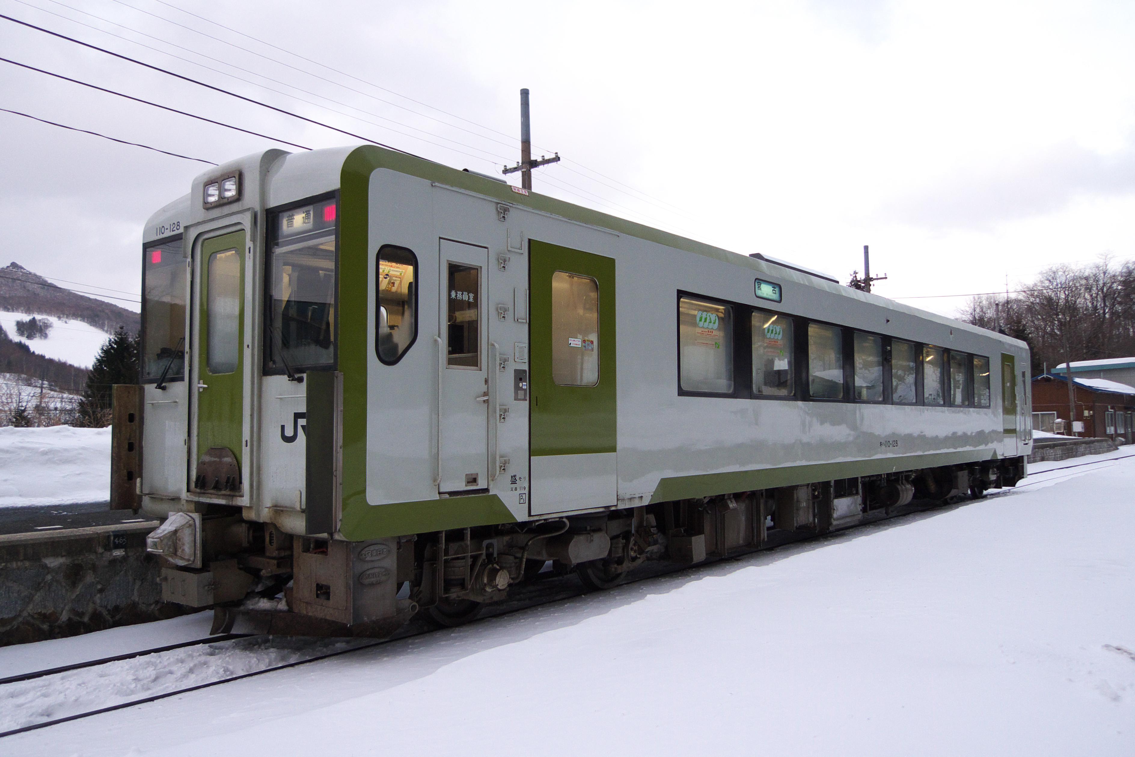 A JR East Kiha 100-100 series DMU at Kuzakai Station on the Yamada Line